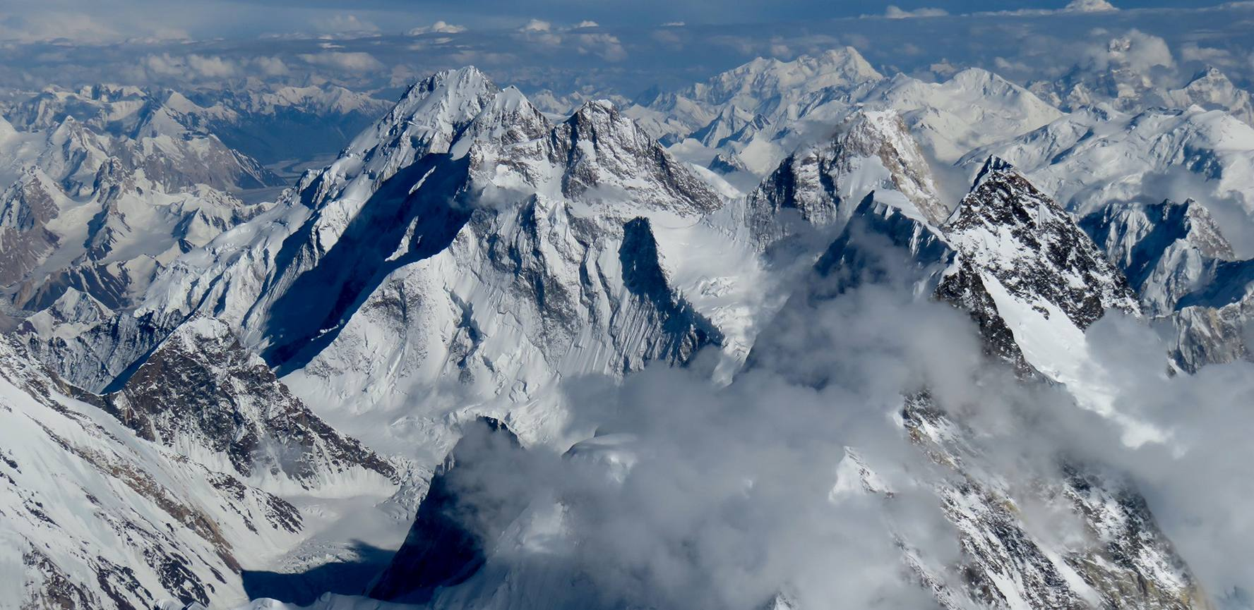 View from top of K2